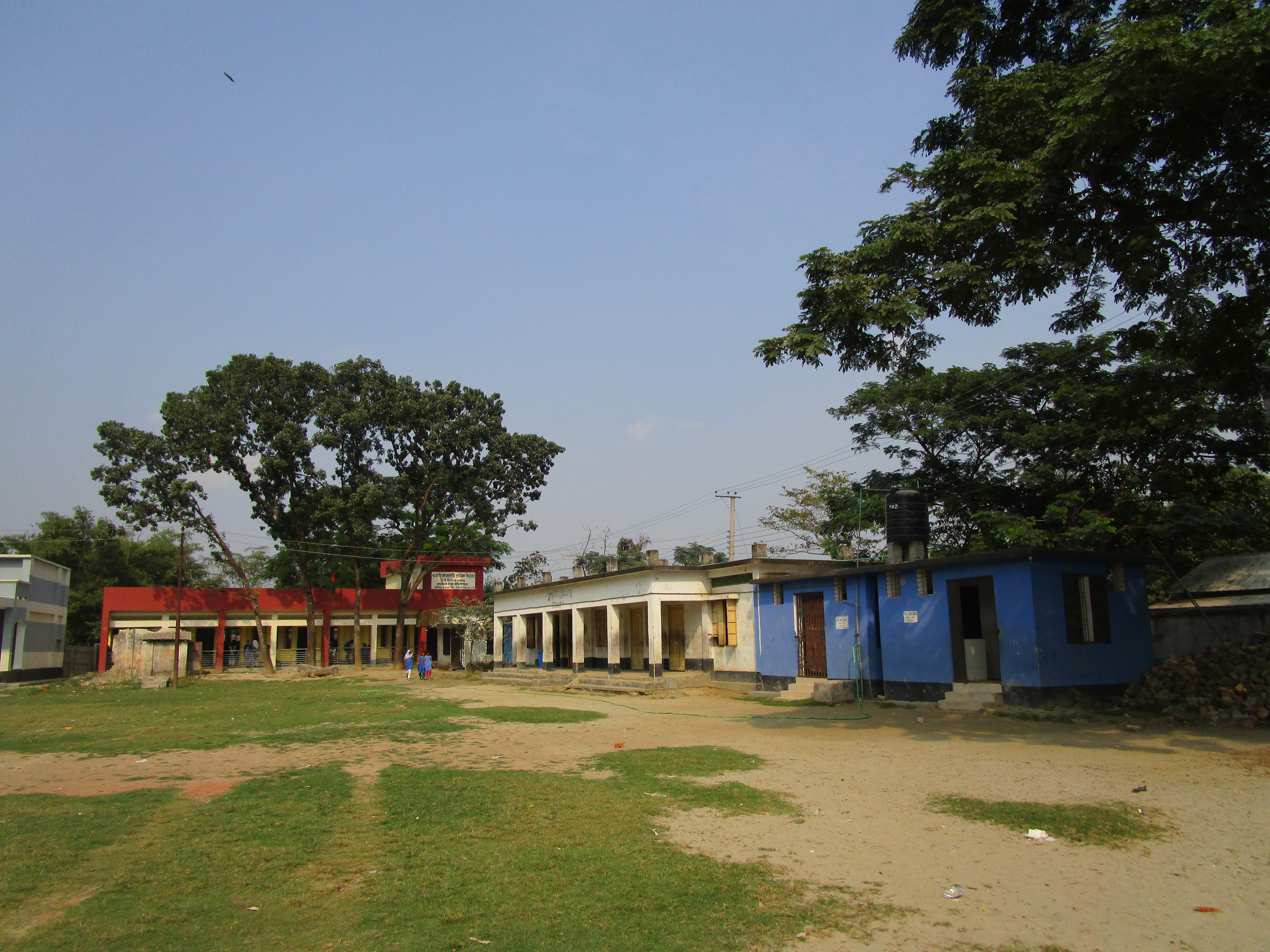 Dapunia Kawalti Govt. Primary School at Dapunia Bazar.